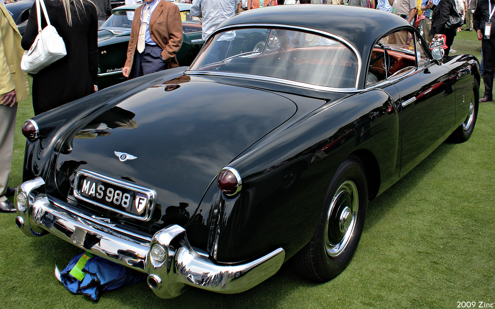 1951 Bentley Mark VI Coupé Cresta II coachwork designed by Battista Pinin Farinaand built in France by FACEL Pebble Beach Concours d'Elegance, Aug 16, 2009